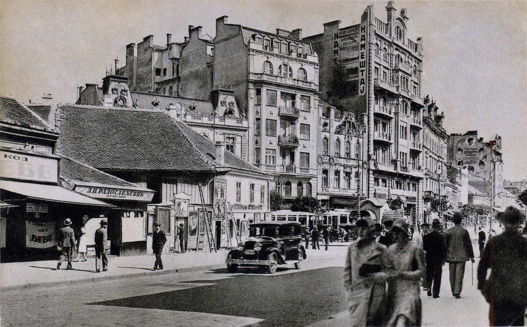 Old phtograph of the Belgrade, the capital of Serbia